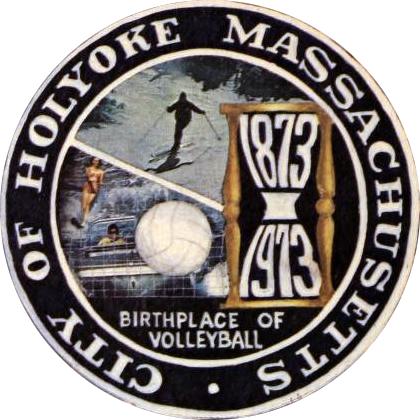 The obverse of the centennial seal of Holyoke, Massachusetts, featuring volleyball, the sport invented there, as well as a waterskier on the Connecticut River and Mount Tom Ski Area